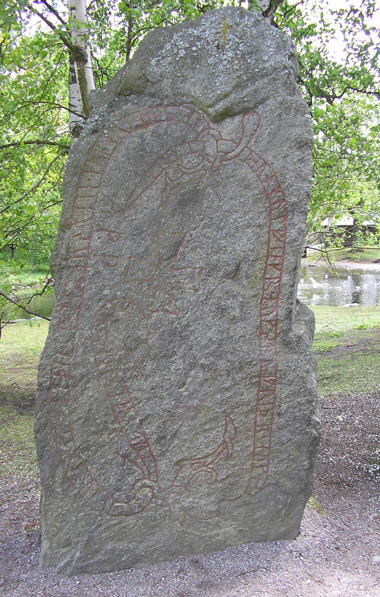 Norslundastenen (Upplands runinskrifter 419). Rune stone from Uppland. The inscription reads: Kylving and Stenfrid and Sigfast erected this stone in memory of Östen, son of Gunnar ... May God preserve his soul.